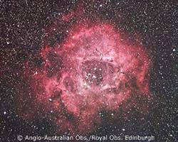 interstellar clouds and dust